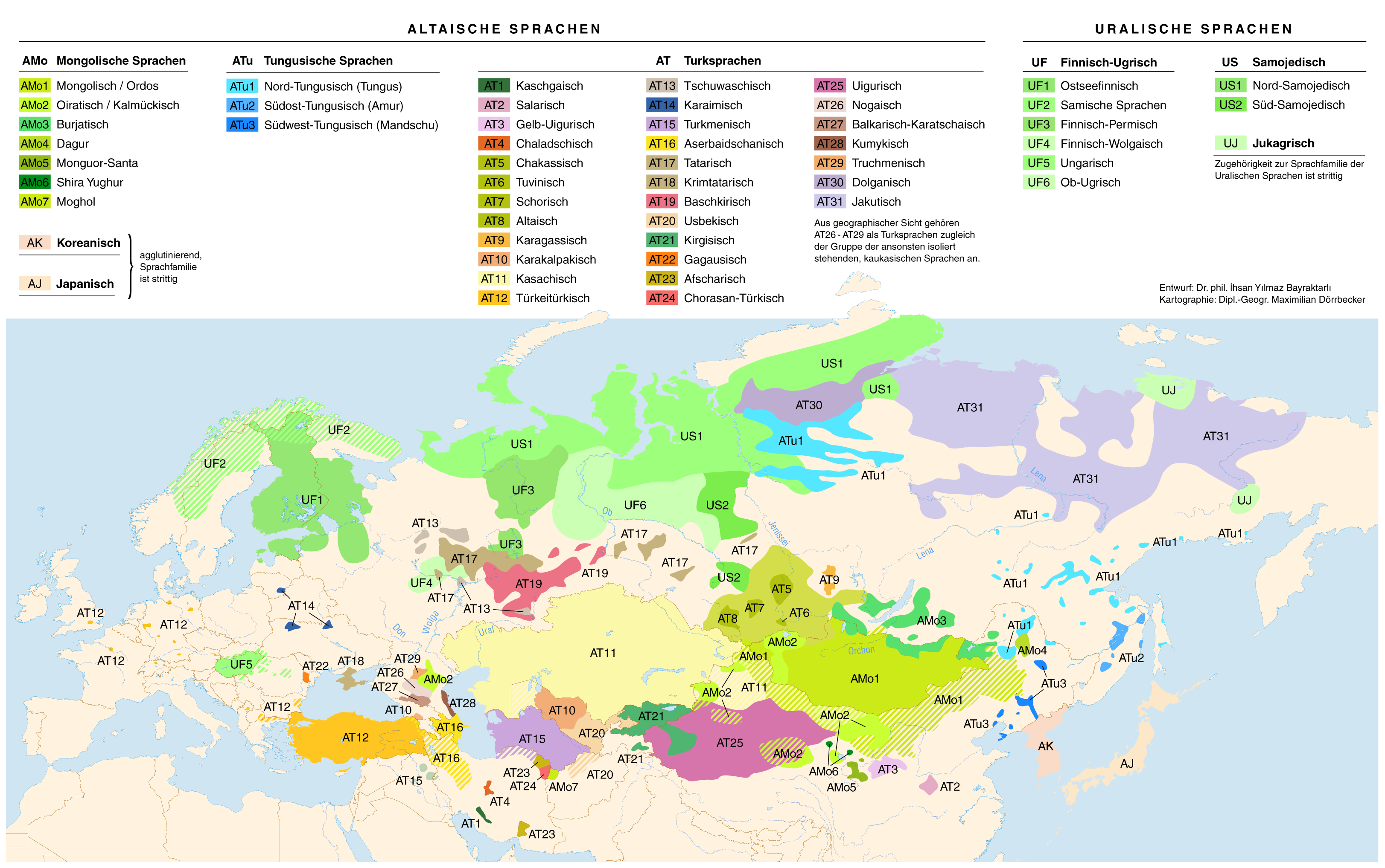 Linguistic map of the Altaic, Turkic and Uralic languages